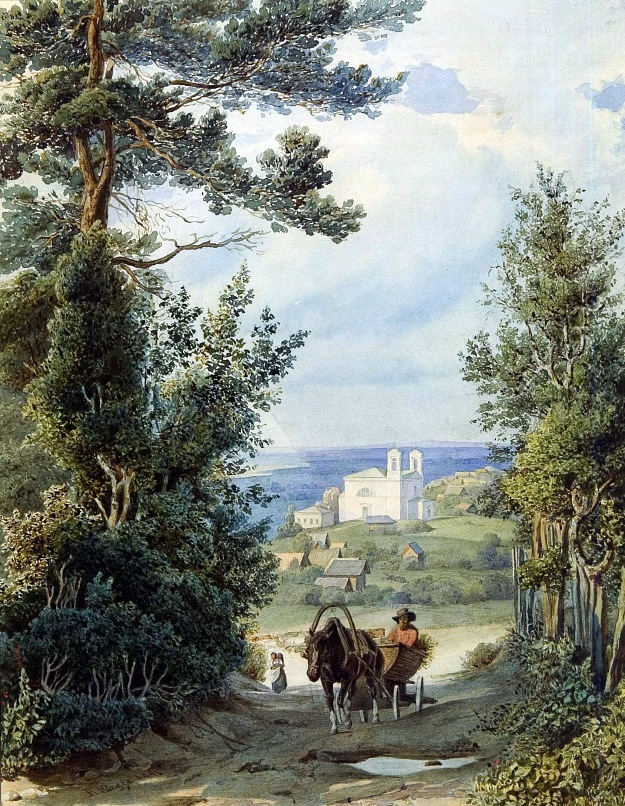 Pulkovo in the early 19th century